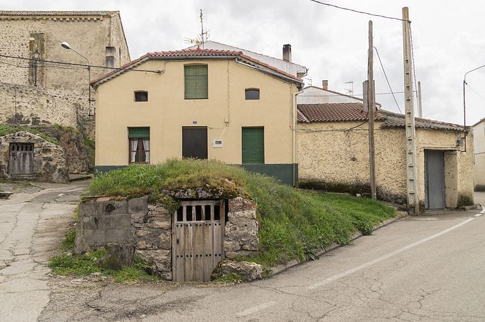 Bodegas urbanas al lado de la carretera